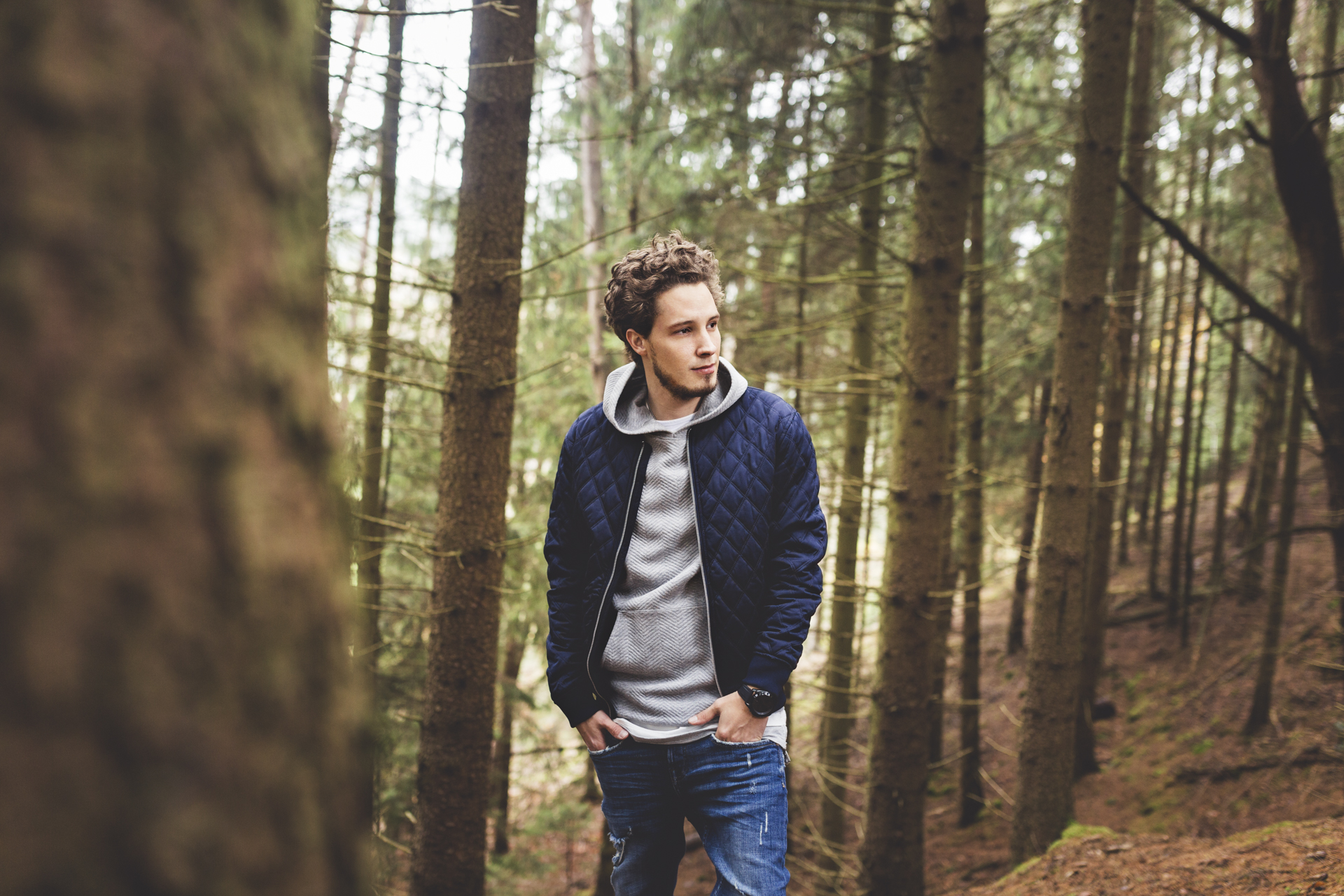 Maxim Schunk